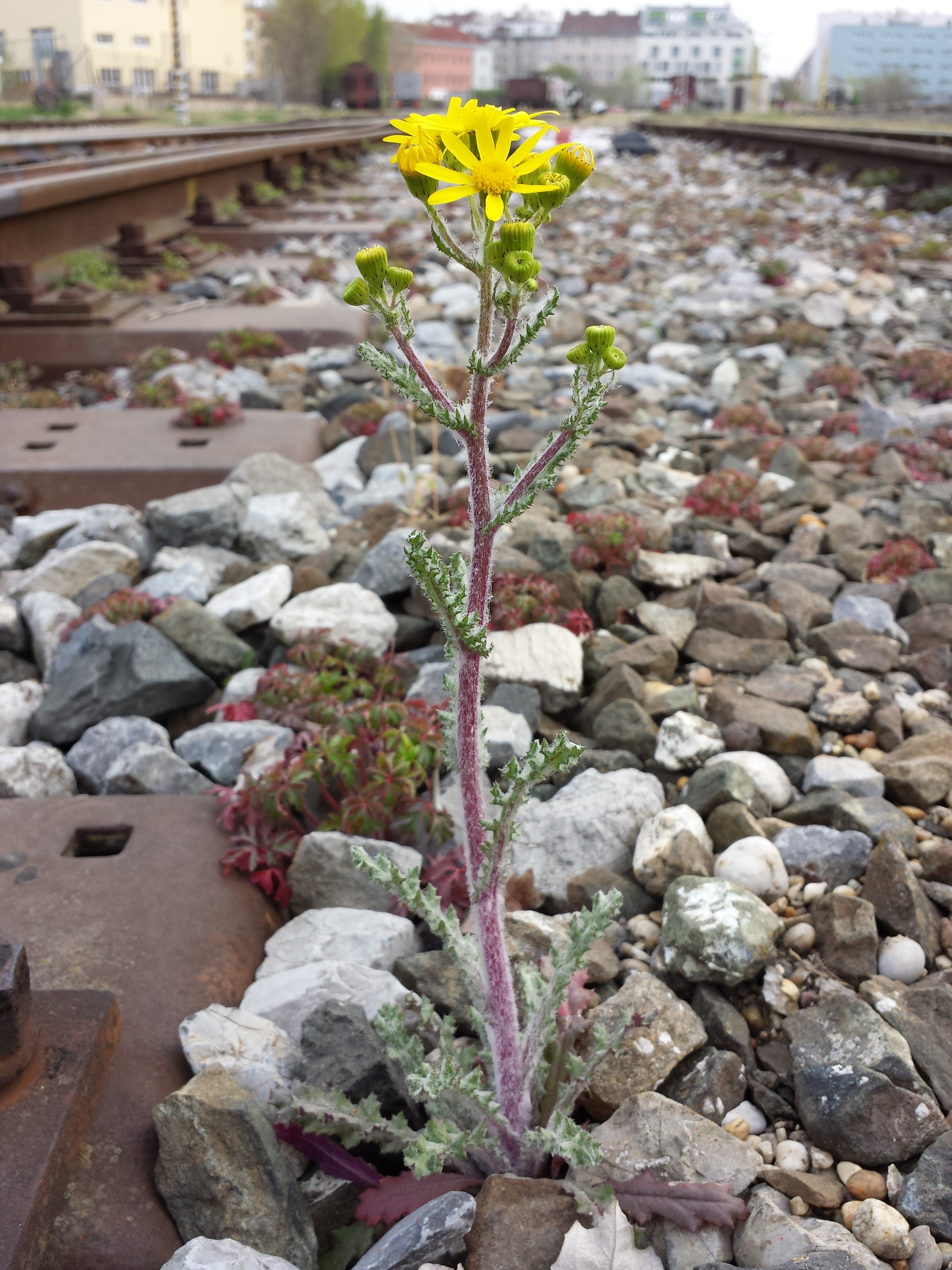 Habitus Taxon: Senecio vernalis (sensu Fischer et al. EfÖLS 2008 ISBN 978-3-85474-187-9) Location: train station Floridsdorf, Vienna - ca. 160 m a.s.l. Habitat: ballast